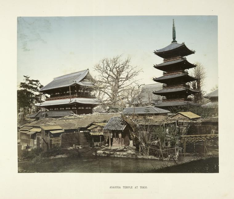 Digital ID: 110043. Kusakabe, Kimbei -- Photographer. 188-?-189-? Source: Japan. / Kimbei Kusakabe. ( Repository: The New York Public Library. Photography Collection, Miriam and Ira D. Wallach Division of Art, Prints and Photographs. See more information about and others at Persistent URL: Rights Info: No known copyright restrictions; may be subject to third party rights (for more information